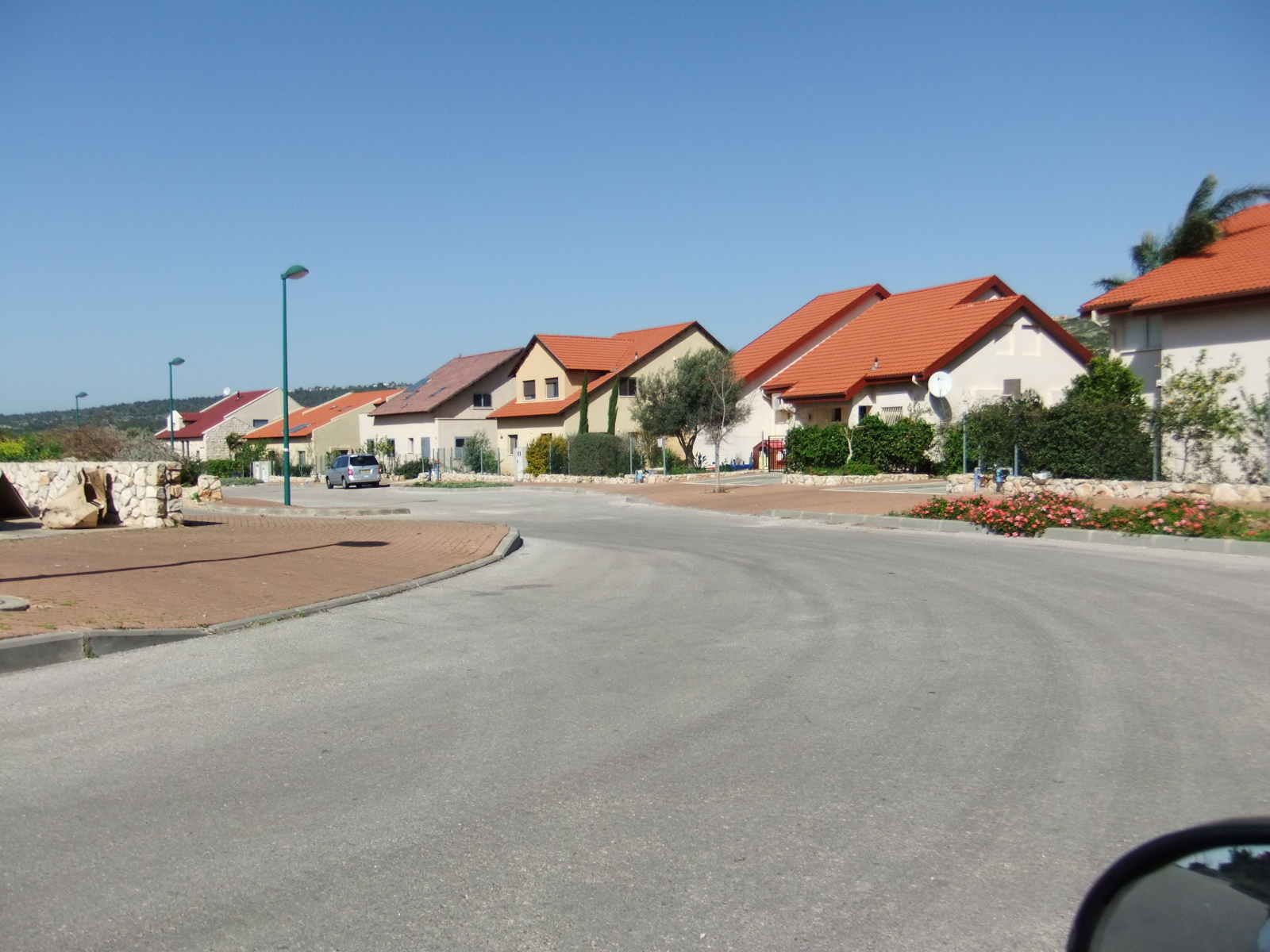 Typical street in Moreshet